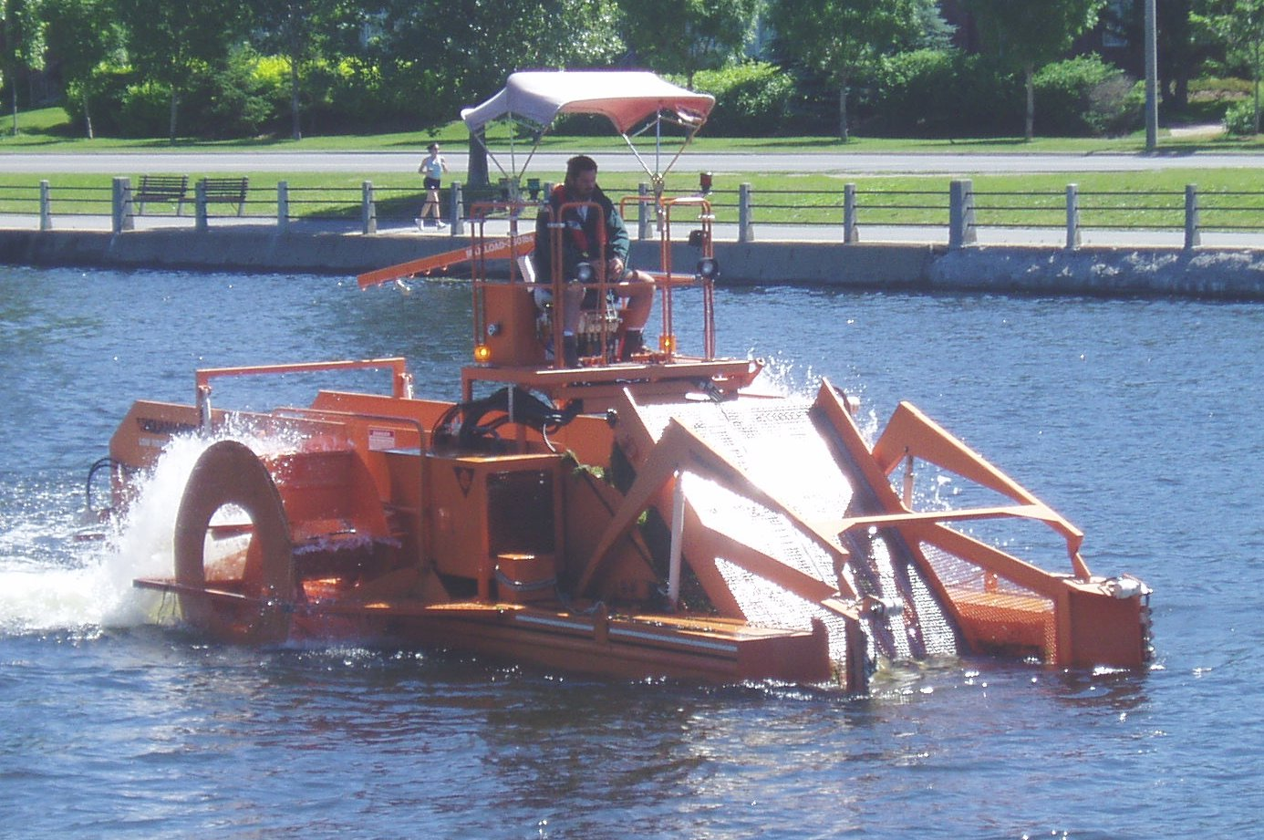 The device the National Capital Commision uses to clear weeds from the Rideau Canal in Ottawa, Ontario